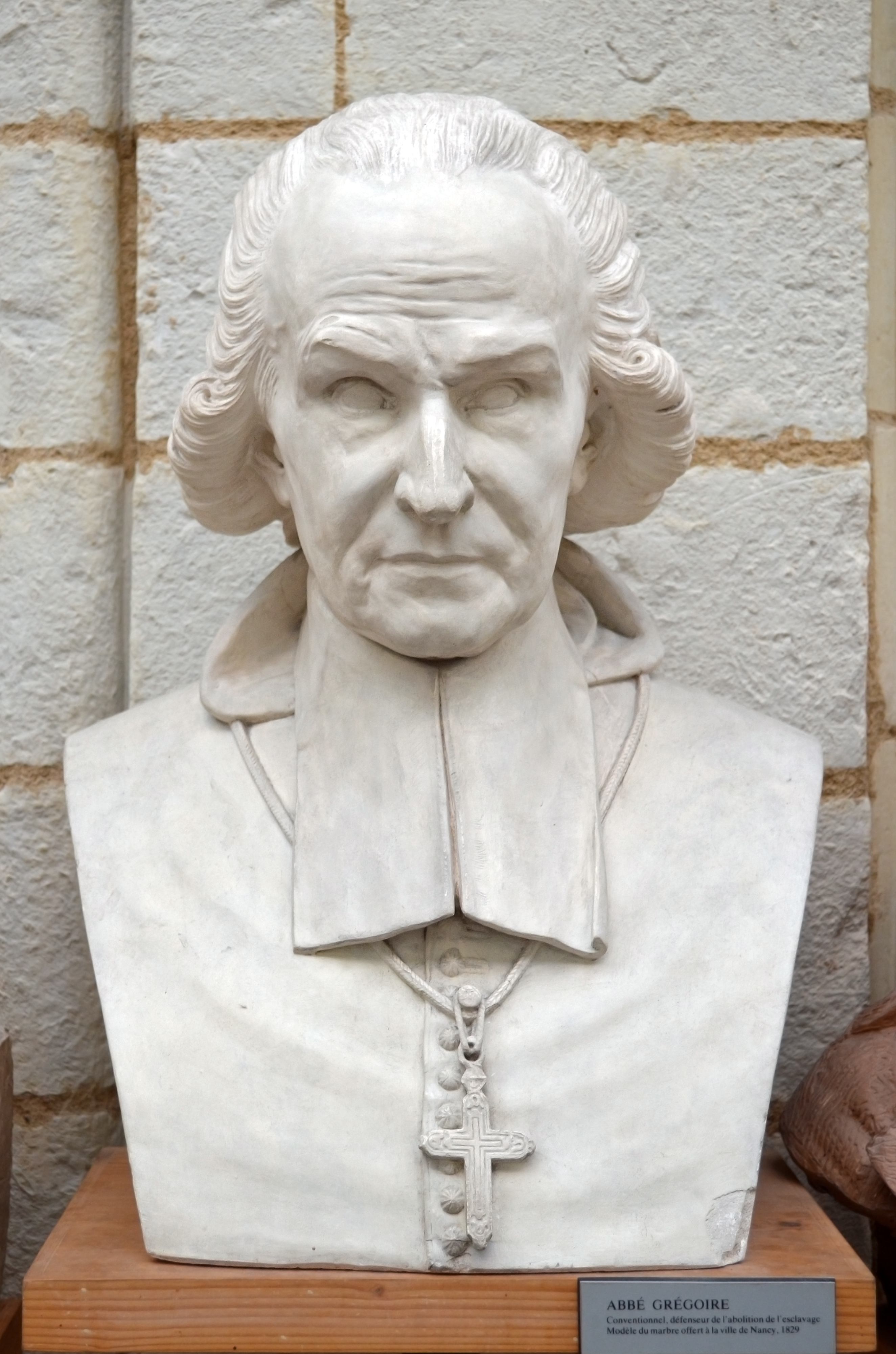 Bust of Henri Grégoire by french sculptor David d'Angers (1829). Exhibited in David d'Angers gallery, Angers, France